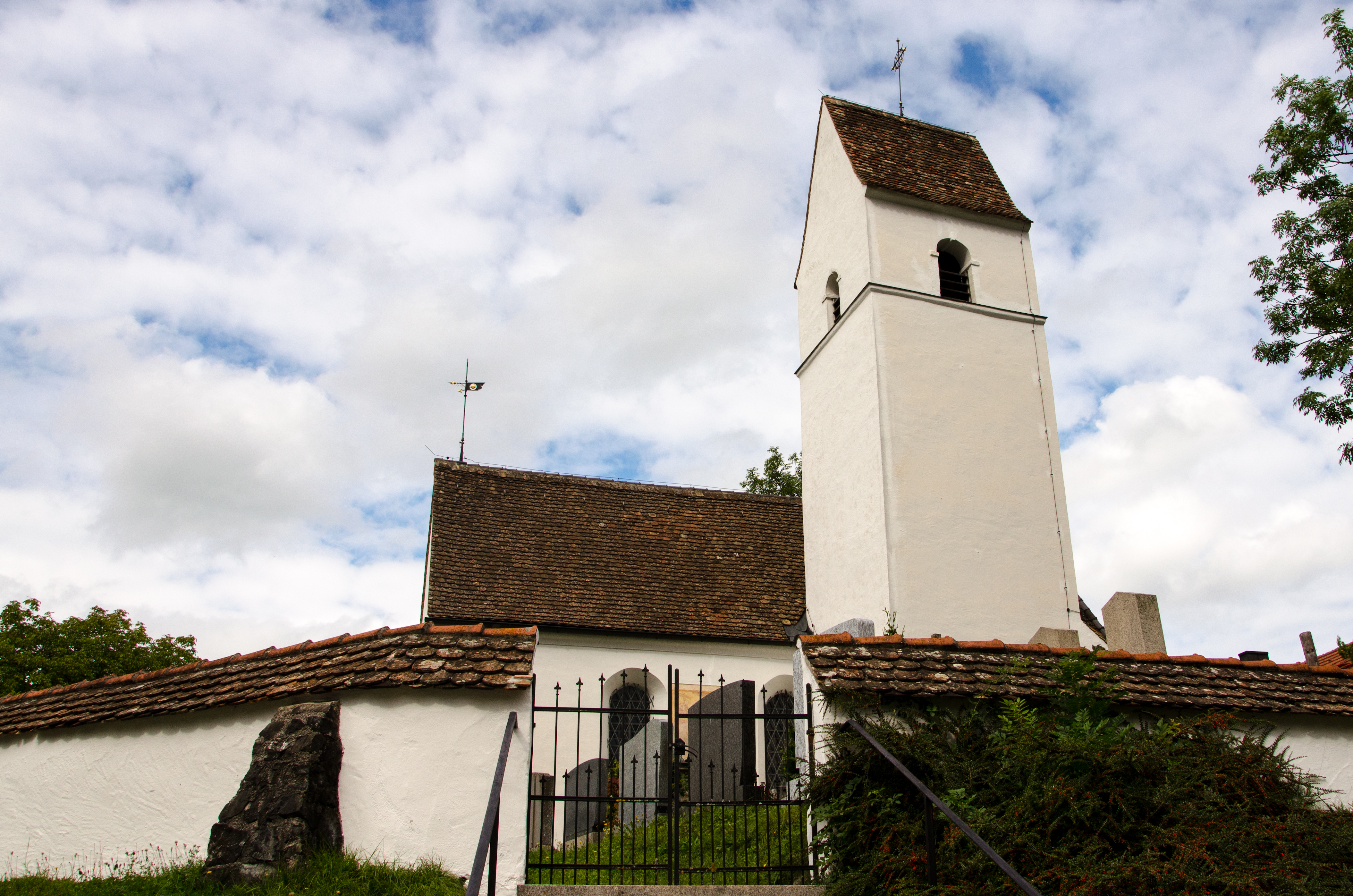 This is a photograph of an architectural monument.